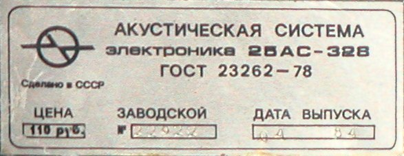 Passive radiator speaker enclosure, rear view. 25AC Leningrad plant "Ferropribor" - "Electronics 25AC-328"